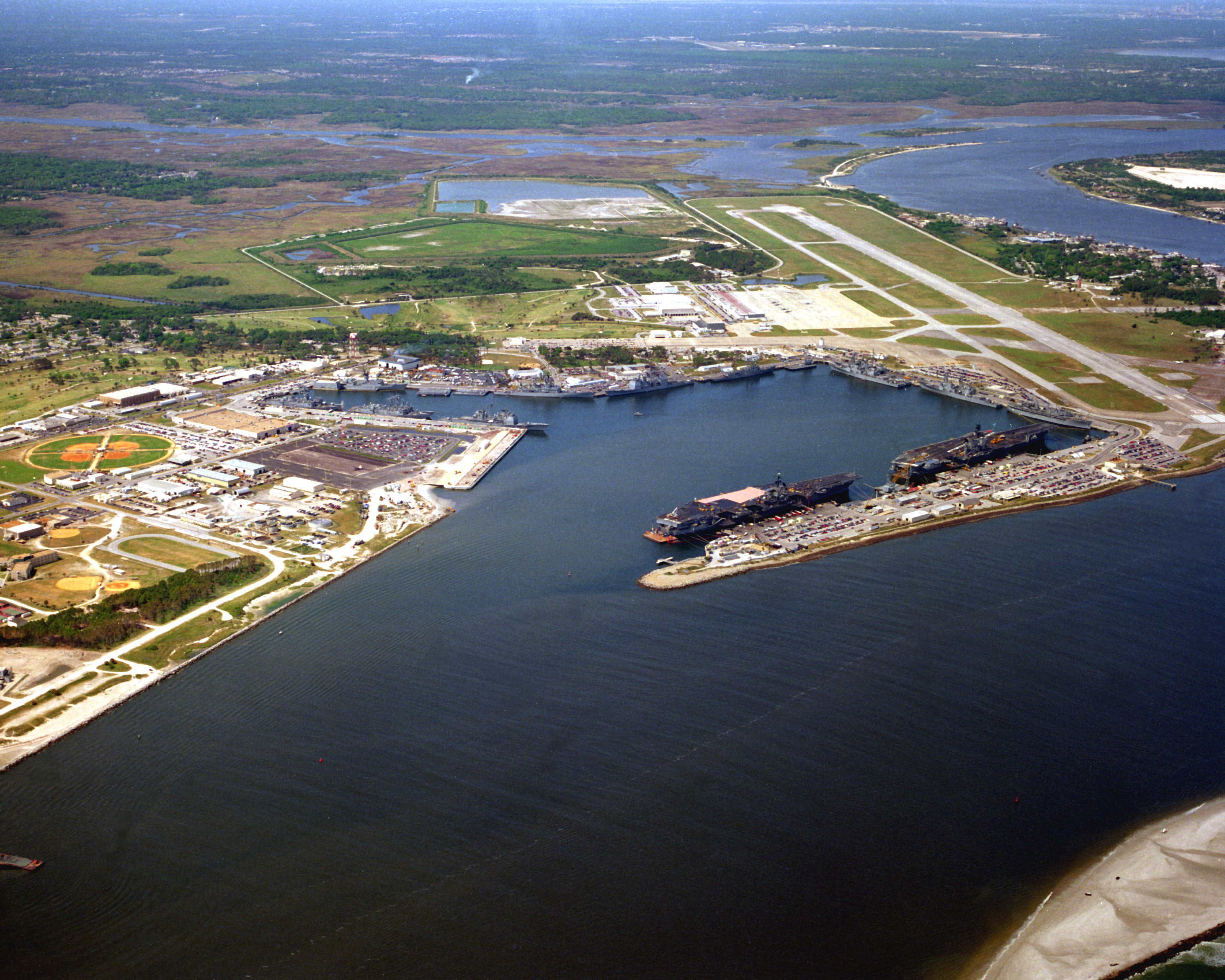 An aerial view of the Naval Station Mayport, Florida (USA). In port are the aircraft carrier USS Saratoga (CV-60, left) and USS Constellation (CV-64). The Constellation was a Pacific Fleet carrier, but had been modernized at the Philadelphia Naval Shipyard.